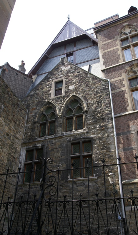 National monument no. 506870 - Sint Servaasklooster 10, Maastricht, The Netherlands.